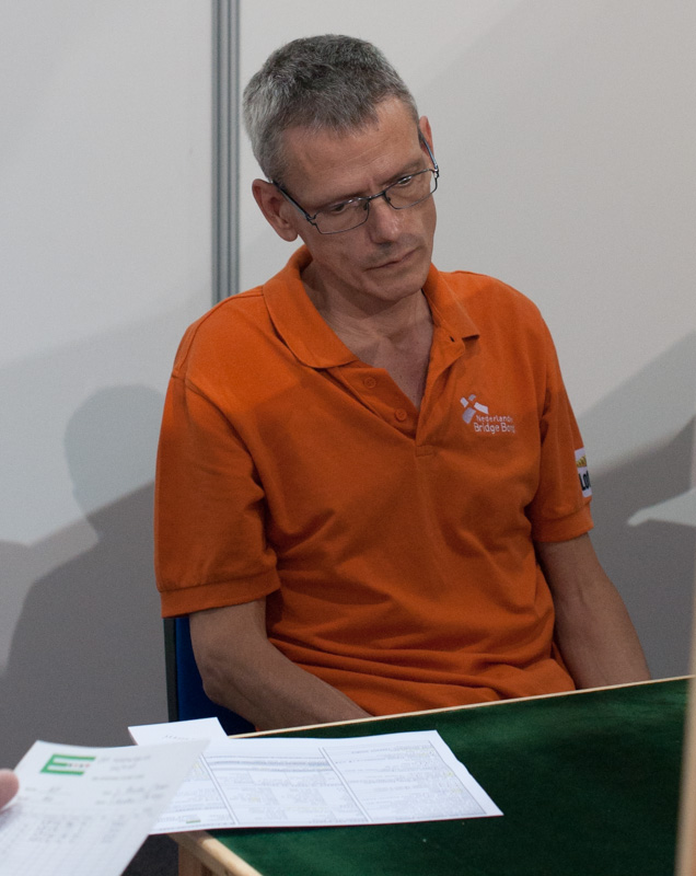 Bauke Muller of the Netherlands